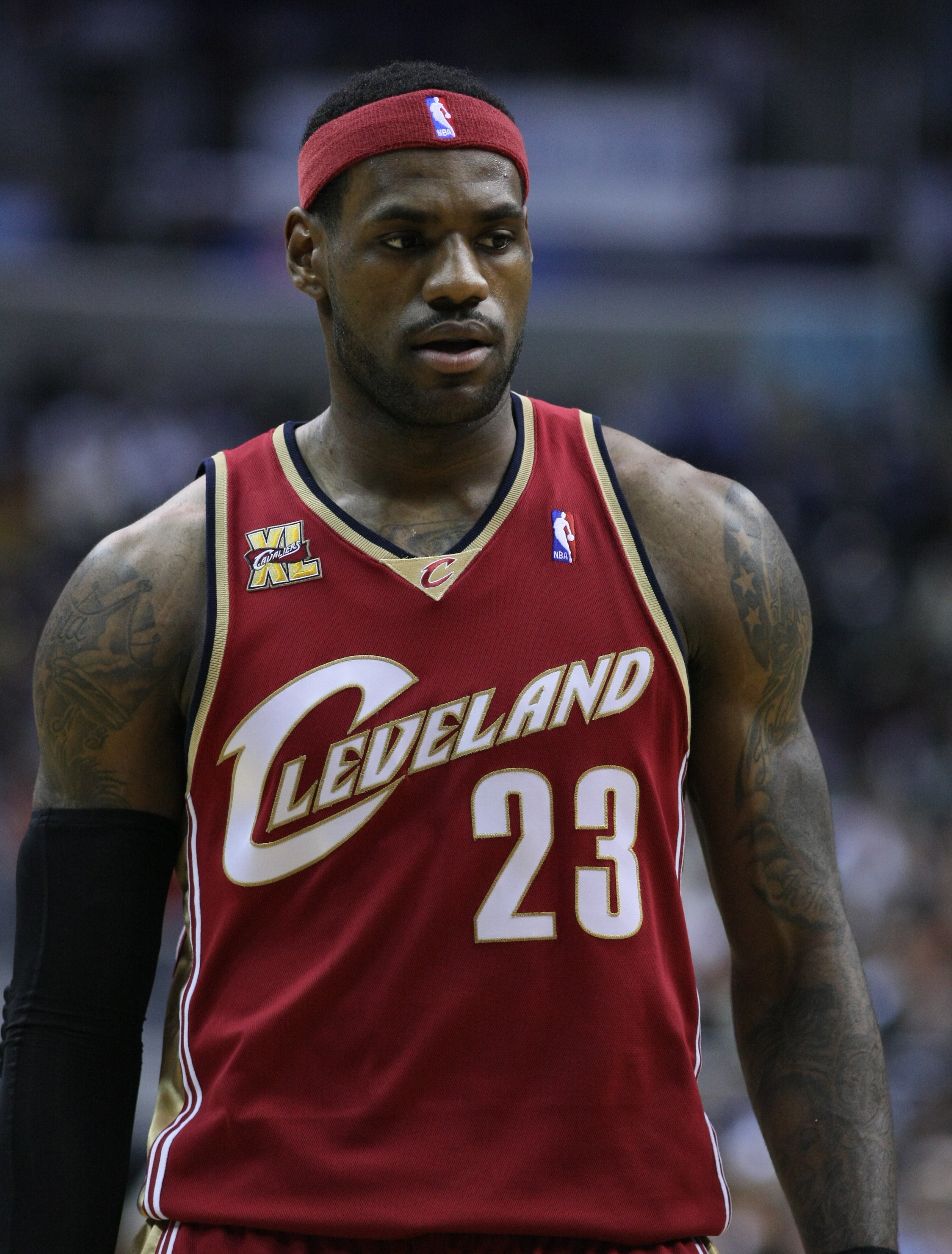 Washington Wizards v/s Cleveland Cavaliers November 18, 2009 at Verizon Center in Washington, D.C.